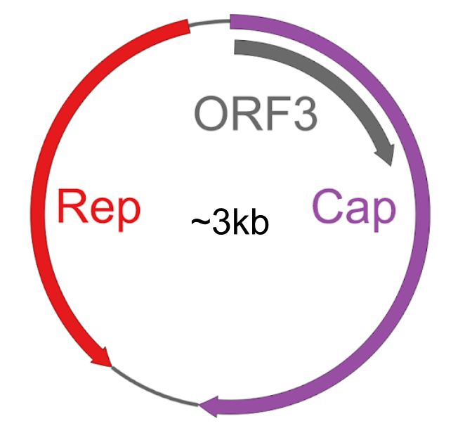 A map of the 3kb, circular genome of a redondovirus, showing the location of the three open reading frames: Cp, Rep, and ORF3.